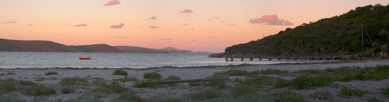 Summer evening light at Middleton Beach, Albany, Western Australia.